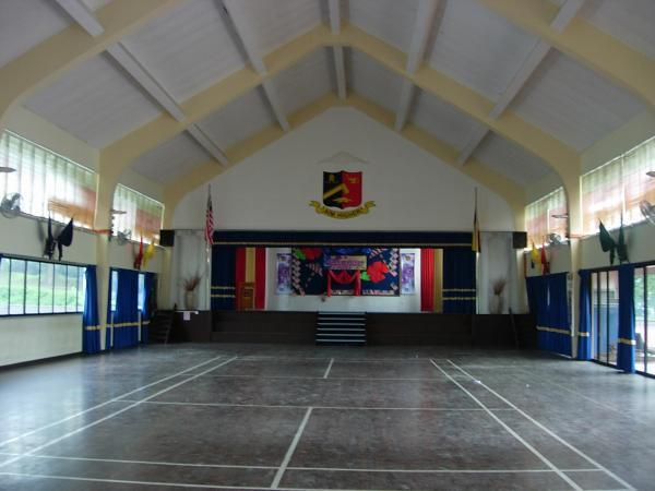 School Hall of St. Thomas School